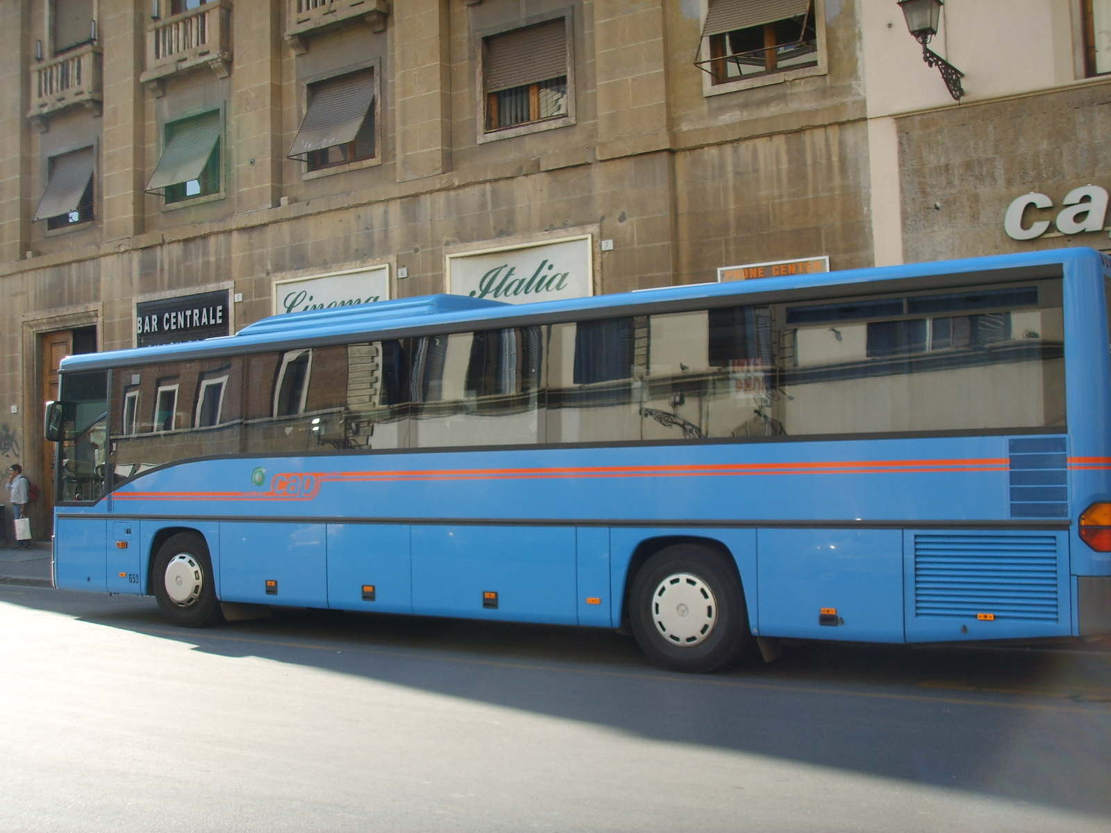 Bus_cap_interurbano in Florence